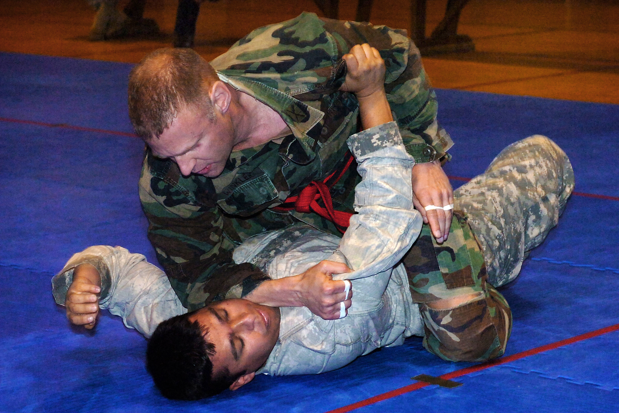 U.S. Army Maj. Ed Winkler gains leverage over his opponent, Pfc. Charles Jahnke, during an Army Combatives tournament held during the 2010 Oregon National Guard Warrior Challenge on Camp Rilea in Warrenton, Ore., May 22, 2010. Winkler is assigned to the 82nd Rear Operations Center in Lake Oswego, Ore., and Jahnke is assigned to the 1st Battalion, 82nd Cavalry, in Klamath Falls, Ore.